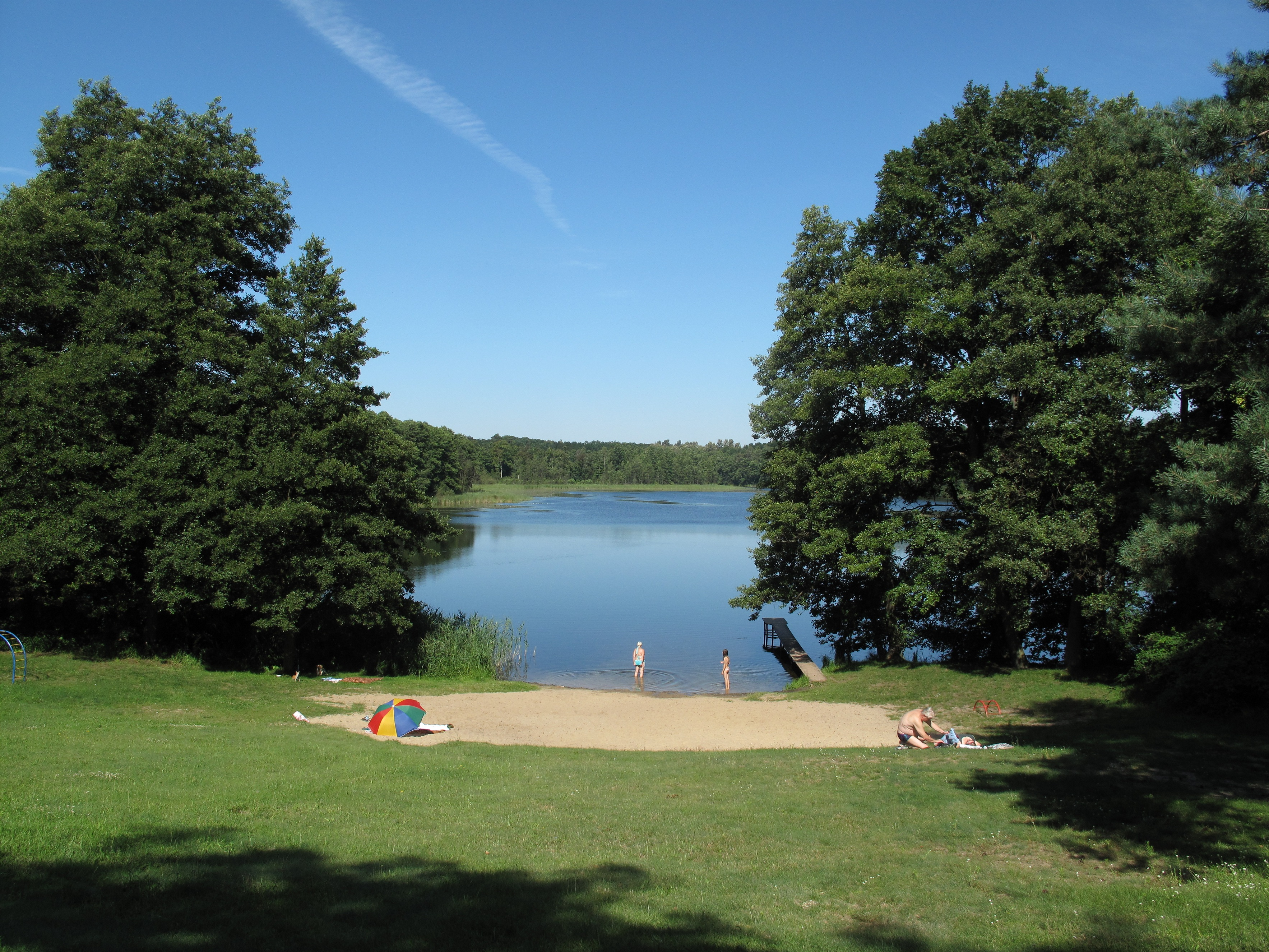 The „Langer See“ is a lake in Brandenburg (Germany) near the village Garzin, District Märkisch-Oderland. The lake covers 34 hectare and is situated in the Märkische Schweiz Nature Park.